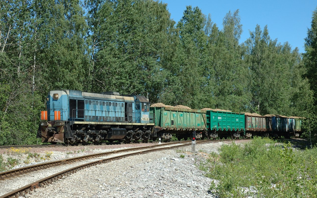 TEM18-192 of Põlevkivi Raudtee is going with oil shale train to Kohtla-Järve, the picture was taken near Ahtme, Estonia